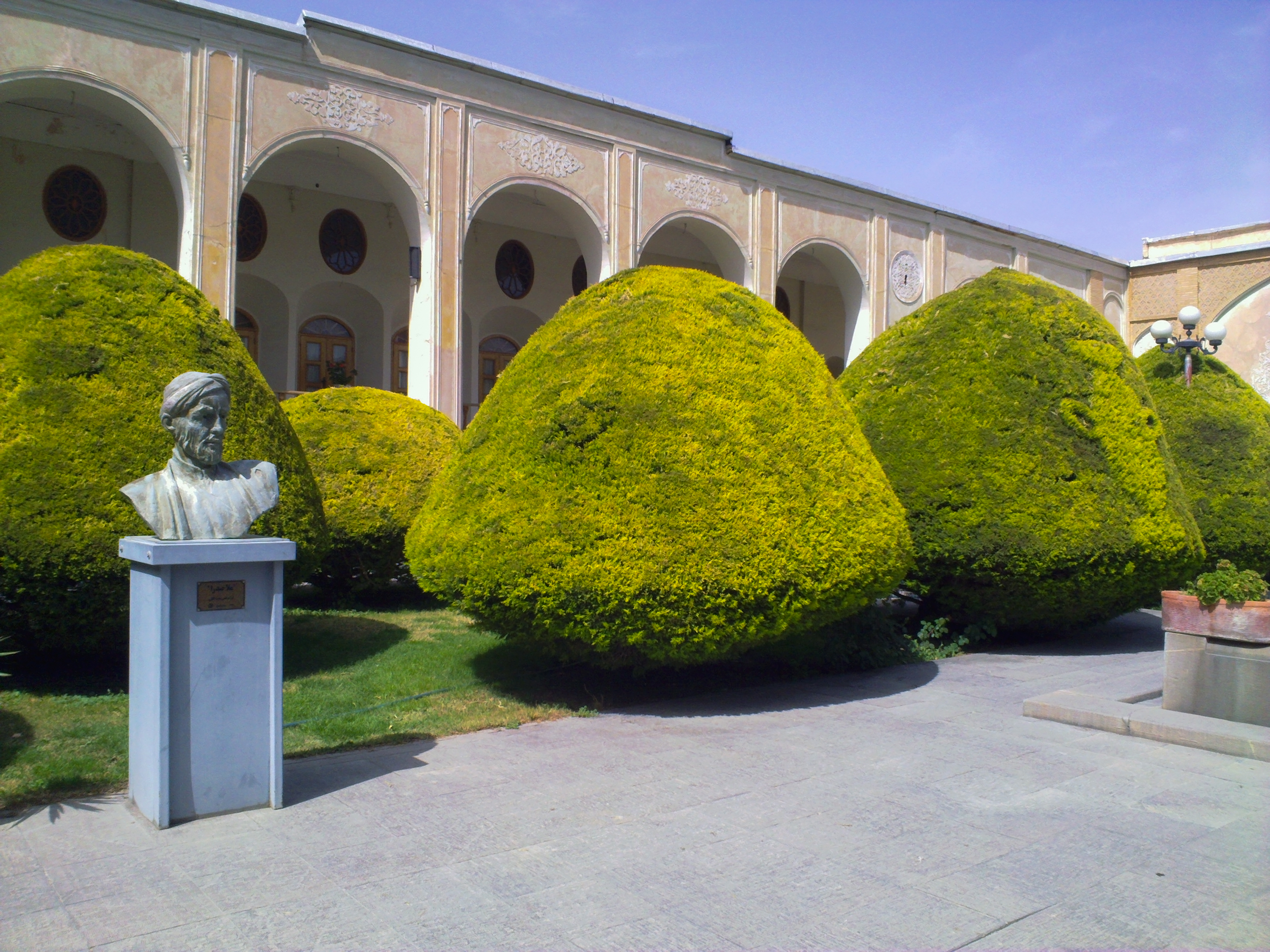 Isfahan historically also rendered in English as Ispahan, Sepahan, Esfahan or Hispahan, is the capital of Isfahan Province in Iran, located about 340 kilometres (211 miles) south of Tehran.